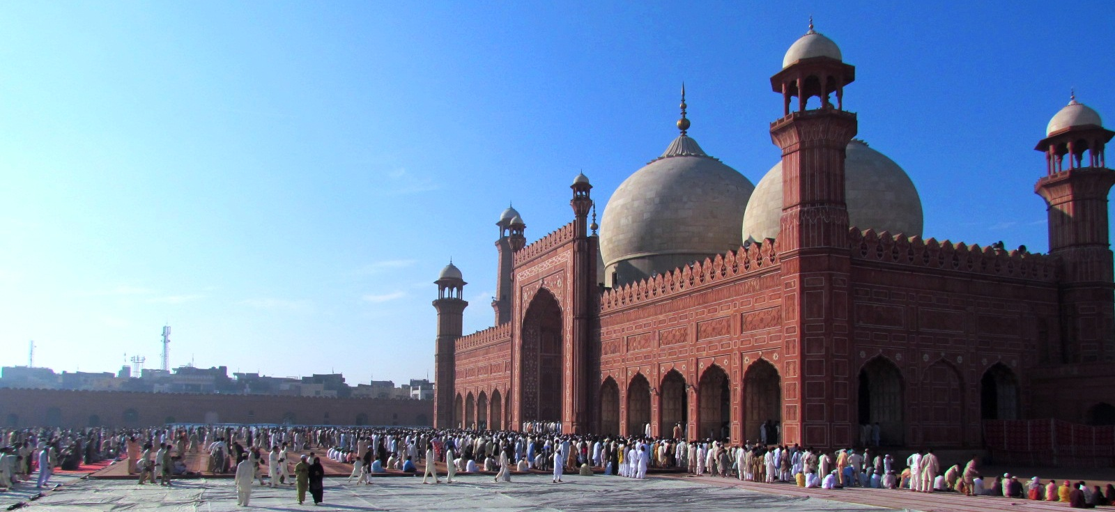 The Badshahi Mosque is one the largest mosques in the country if not the world . It can accommodate around 90,000 plus worshipers in its vicinity. Pictured is a scene from the obligatory morning "Eid" prayers . This is a photo of a monument in Pakistan identified as the PB-44